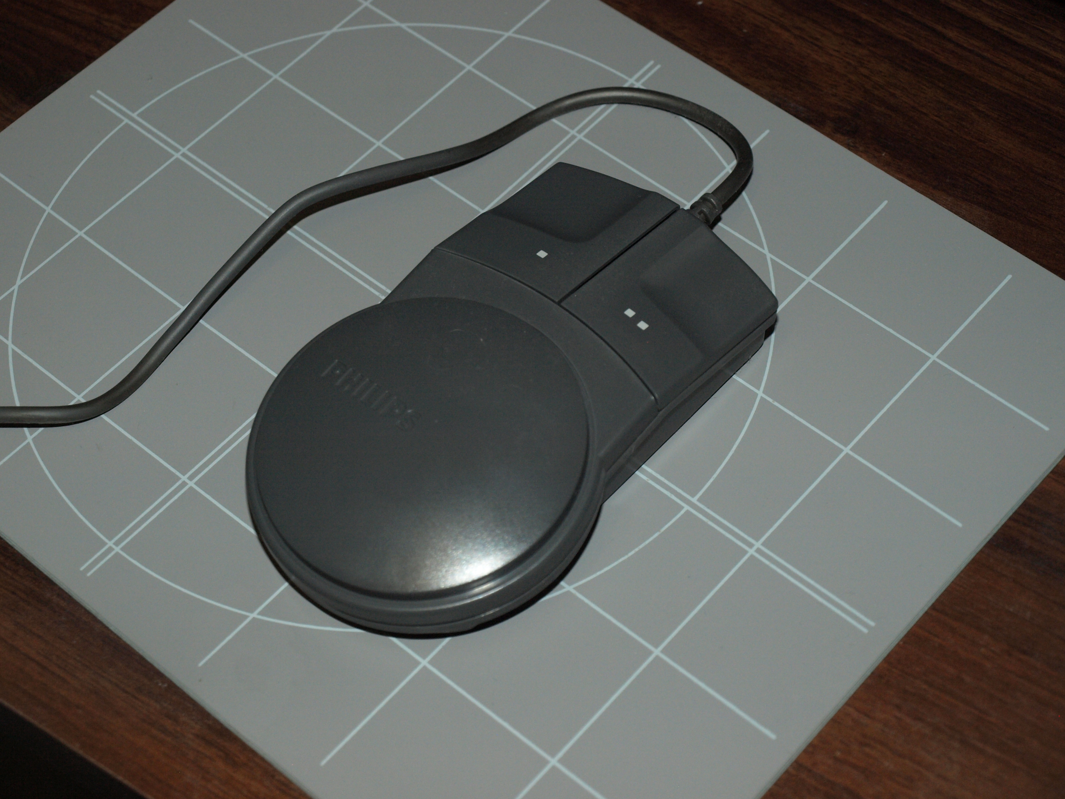 Another picture of a CD-i mouse. These were largely used for "professional" uses (business and educational software), but could also be used for playing games (they were compatible with nearly all CD-i software, but not all software was "suitable" for it).